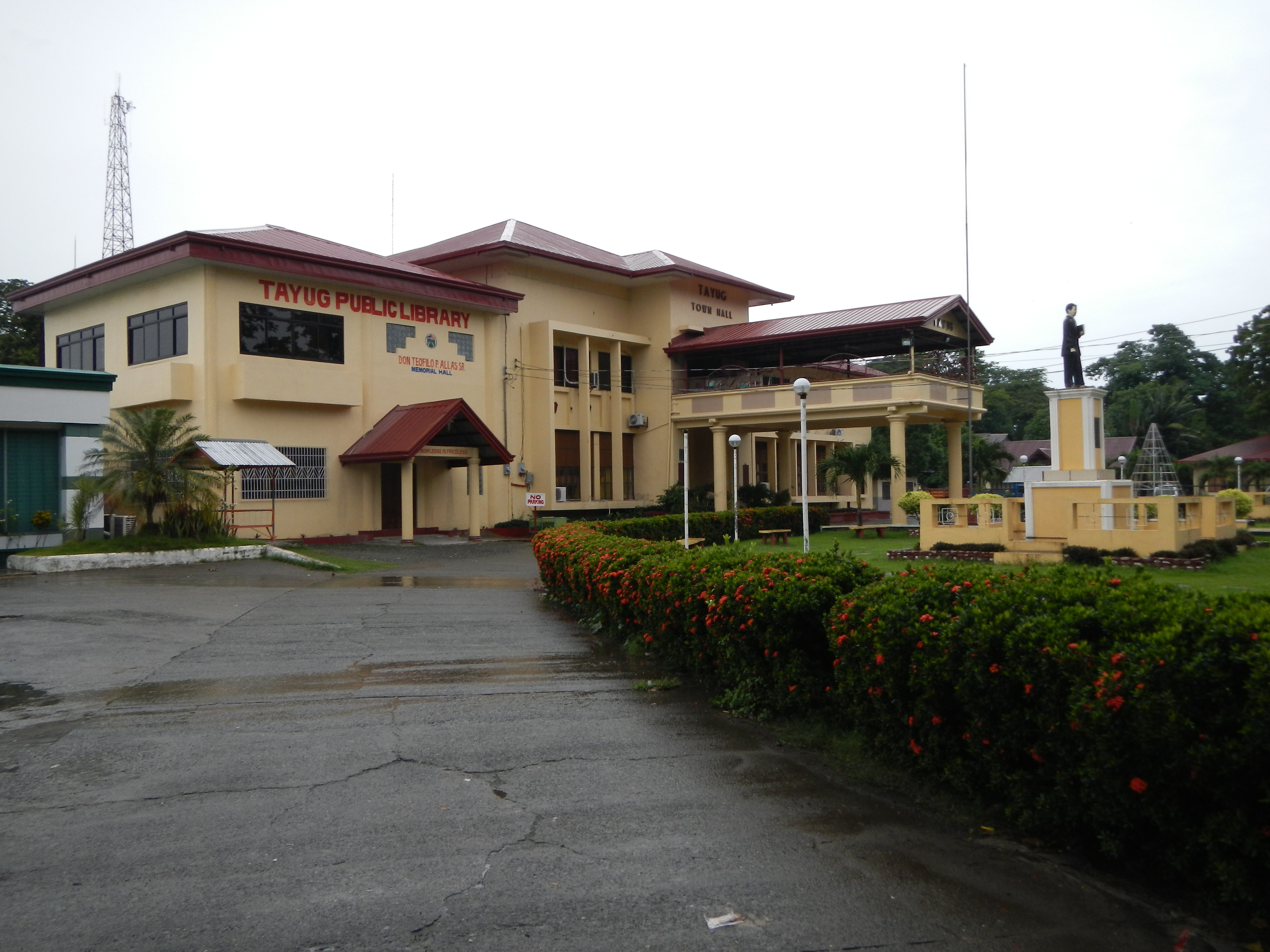 UploadWizard photos the Welcome Arch of -- San Nicolas, Pangasinan[1] [2] Website (founded in the year 1610 Land Area: 210.20 km² ZIP Code: 2447 Coordinates: 16°7'4"N 120°46'3"E (a first-class municipality of Pangasinan, [3] Philippines, with a population of 34,108 2010 census politically subdivided into 33 barangays lies at the foot of the Caraballo Mountains Range [4]) separating it from Boundary Barangay of Tayug, Pangasinan [5] - Magic Mall Tayug Branch opened on June 2010 a two story shopping place[6] Coordinates: 16°1'41"N 120°44'42"E People's Gate, Tayug Town Hall, [7] Coordinates: 16°1'37"N 120°44'41"E and Saint Patrick Parish Church of Tayug etc.